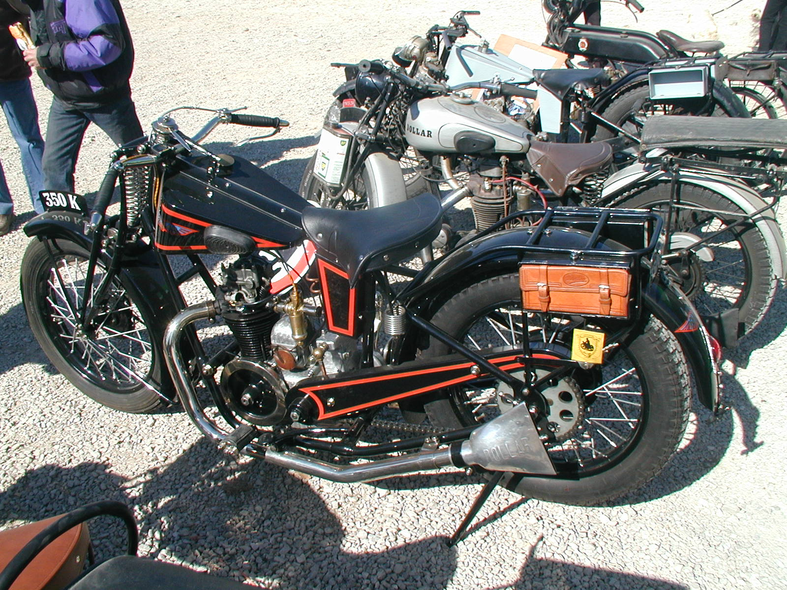 2 Dollar Motorcycles Picture by Gérard Delafond